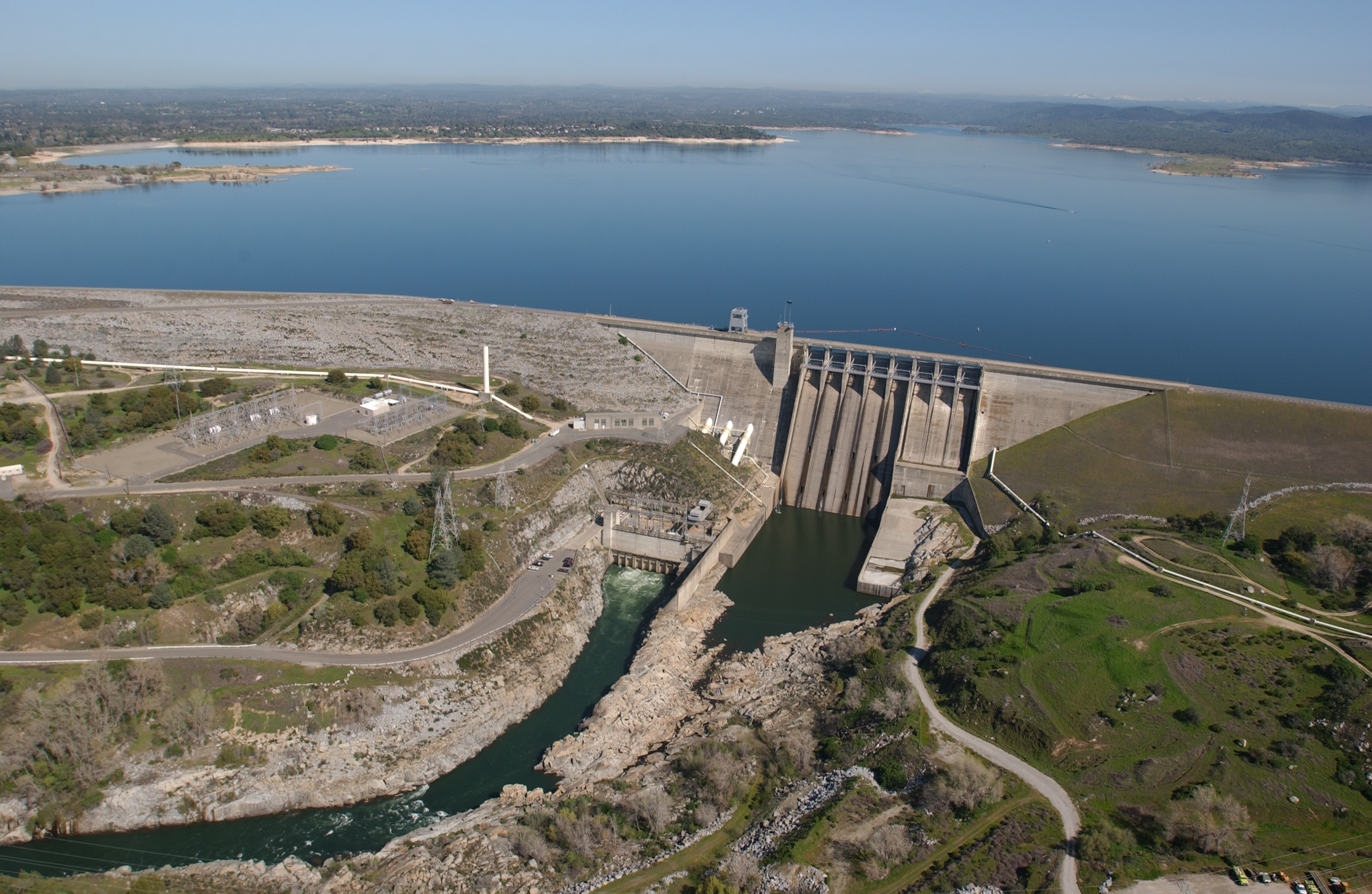 Folsom Dam and Folsom Lake on the American River, above Folsom, California, USA.